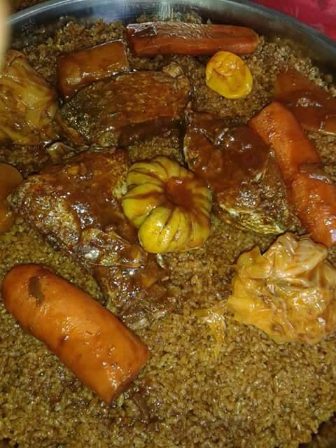 Considered as the national dish, the tiep is at the basis of food consumption in Senegal. It is made of rice, fish and vegetables.